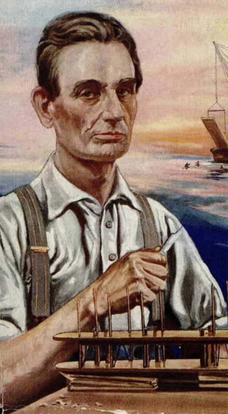 Cropped image of Lincoln from the cover of Popular Mechanics, March 1924